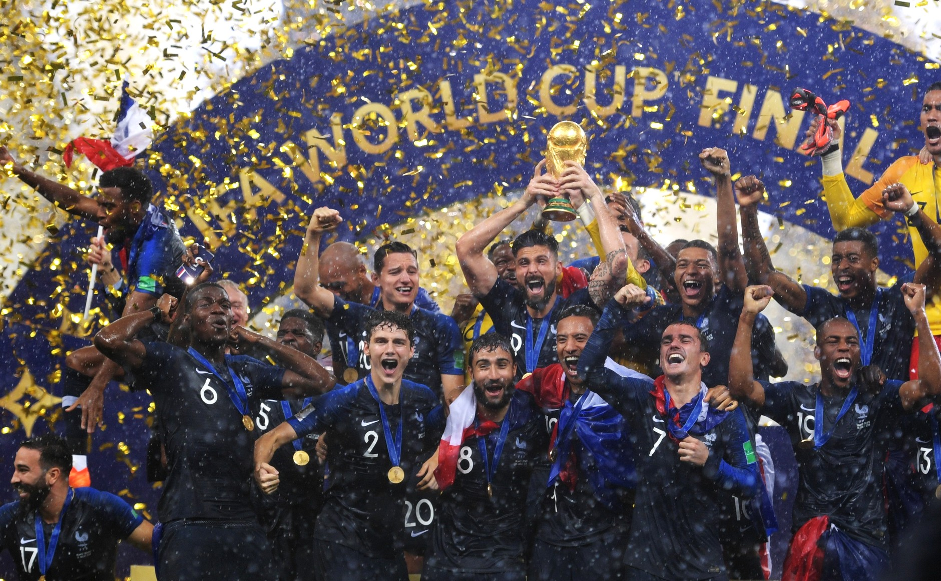 French team, winner of the Football World Cup 2018 in Russia.